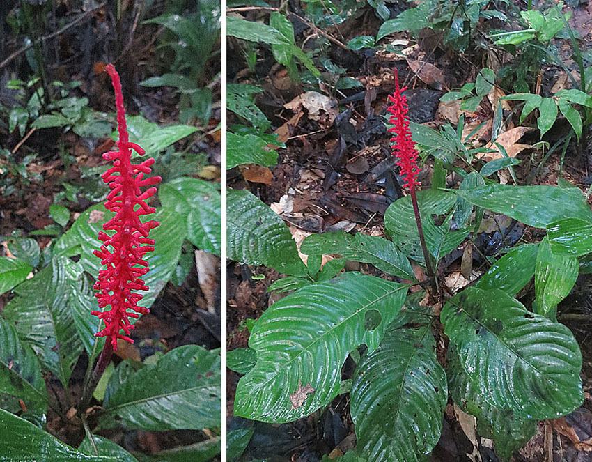 A feature of the western and southern Amazon Basin. Yellow flowers will follow. Amacayacu Park, Colombian Amazon.